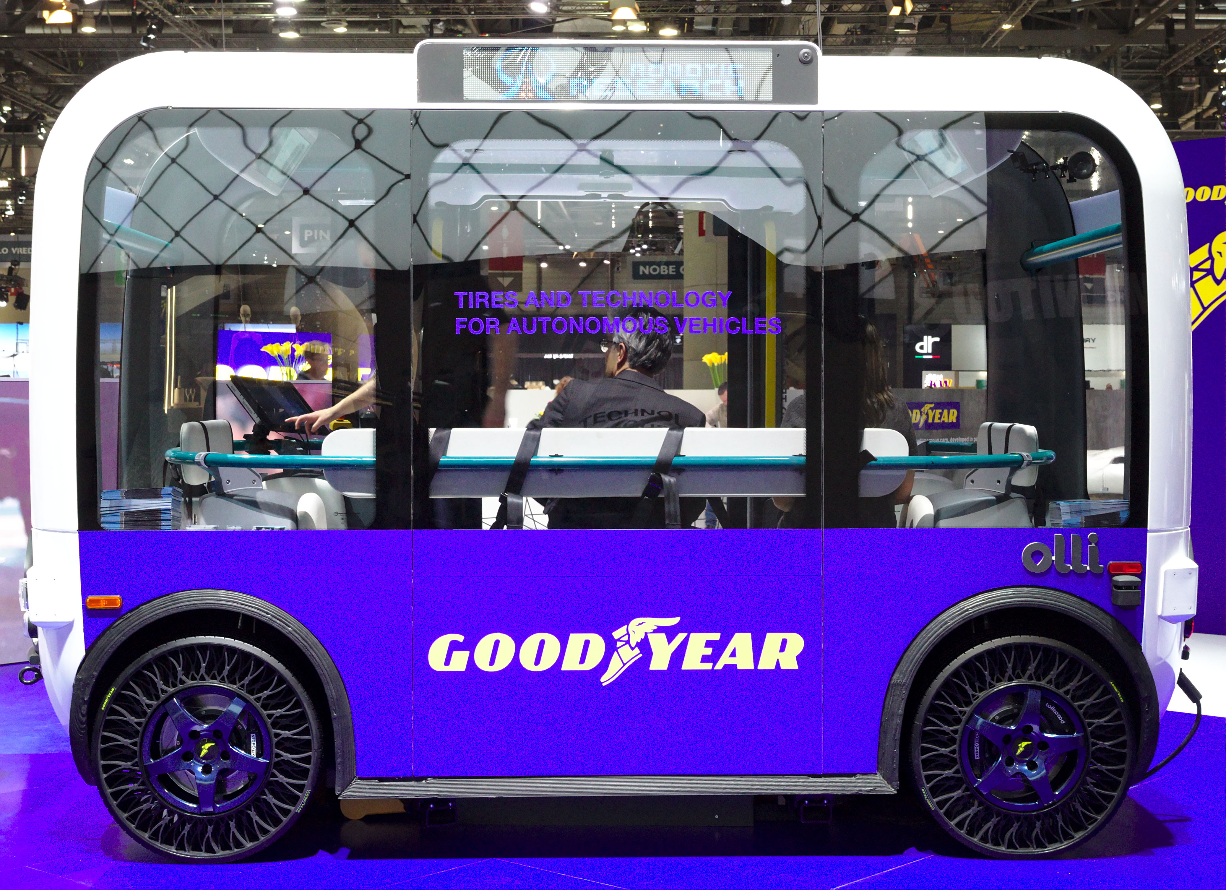 Goodyear Olli at Geneva Motor Show 2019